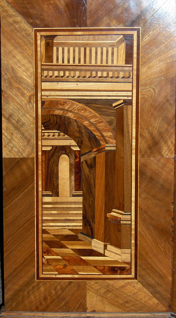 Intaglia on a pew in the church of Heiligenkreuz Abbey near Baden bei Wien, Lower Austria